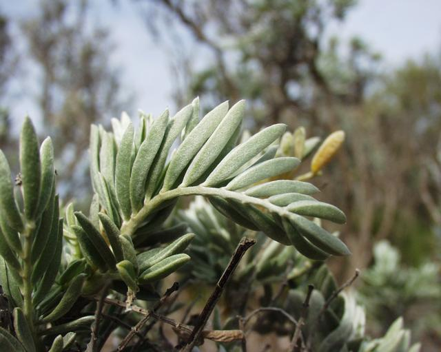 (en) Anthyllis barba-jovis, a photography originating of the internet site The accord of the autor, H. Brisse, is here. (fr) Barbe-de-Jupiter (Anthyllis barba-jovis), une photographie issue du site internet L'accord de l'auteur, H. Brisse, se situe ici. (de)Jupiters Bart, (it)Vulneraria barba-di-Giove